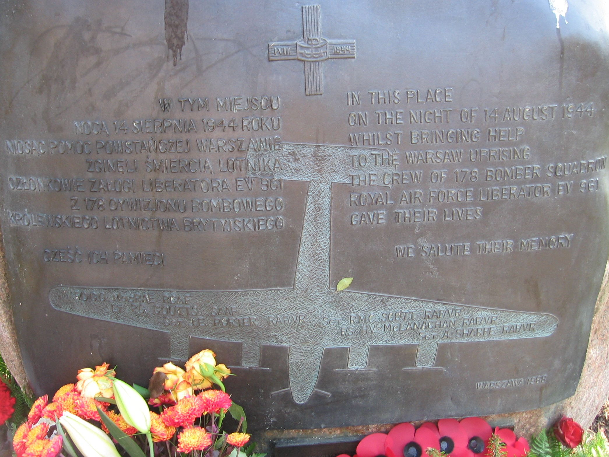 Monument of the RAF Liberator crew, Skaryszewski Park, Warsaw, Poland